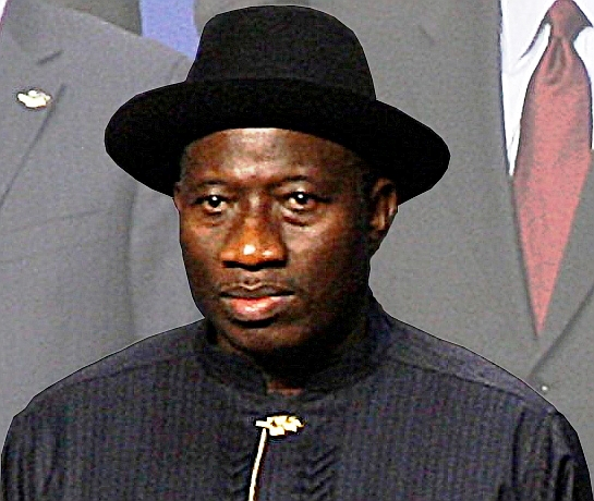 The president of Nigeria, Goodluck Jonathan, at the Nuclear Security Summit, in 2010.